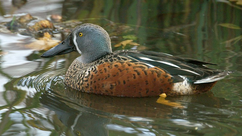 Australian Shoveler (Anas rhynchotis)